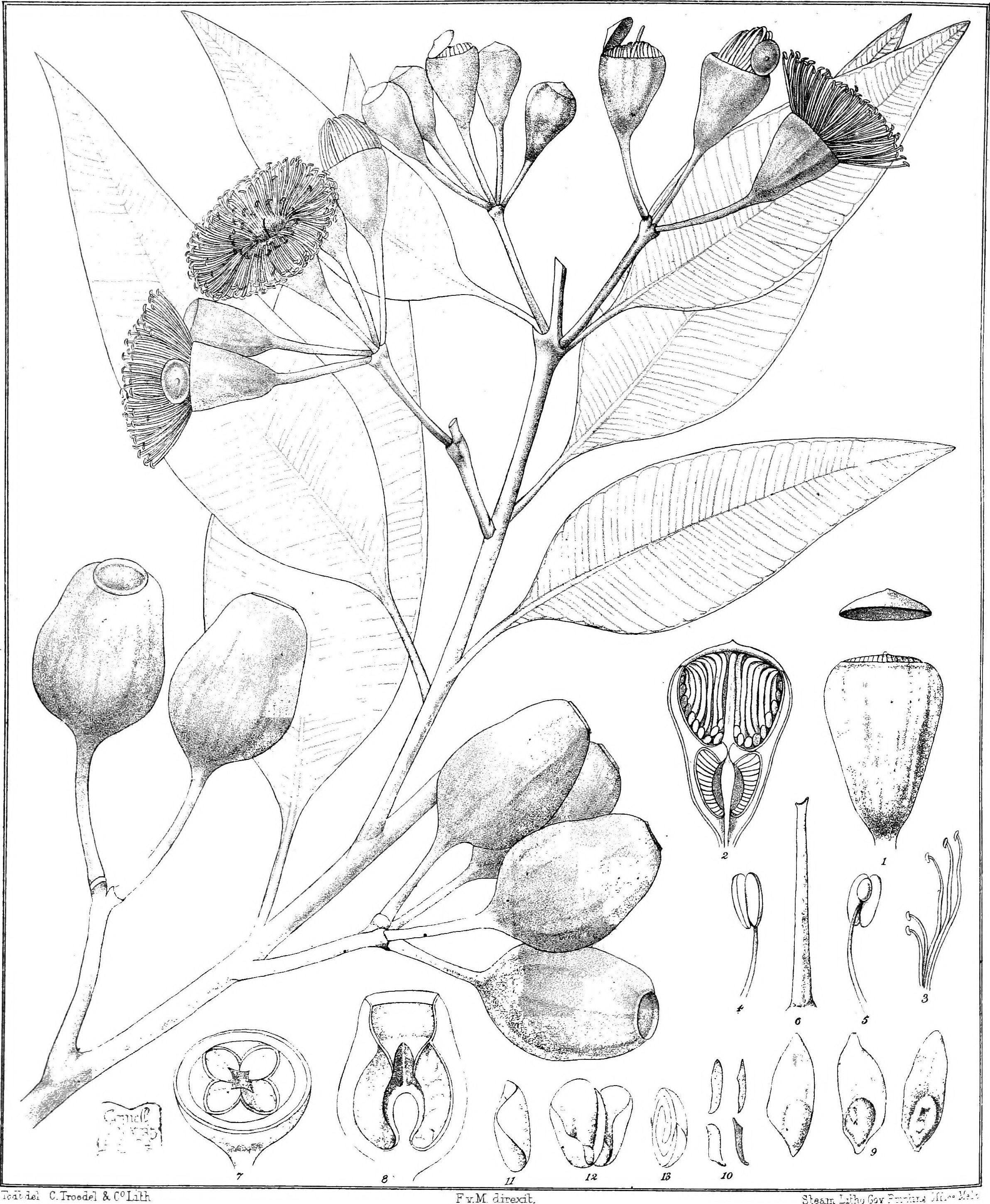 Title: Eucalyptographia. A descriptive atlas of the eucalypts of Australia and the adjoining islands; Year: 1879 (1870s) Authors: Mueller, Ferdinand von, 1825-1896 Subjects: Eucalyptus; Botany Publisher: Melbourne, J. Ferres, Govt. Print; (etc. ,etc. ) Text Appearing Before Image: ' Text Appearing After Image: c il .i£l C. Troodi?! k C ^ T.i». Fv.M_ direxib. te&an -itn-j bov ; li(g%);)ilMg SmiiM^SYM